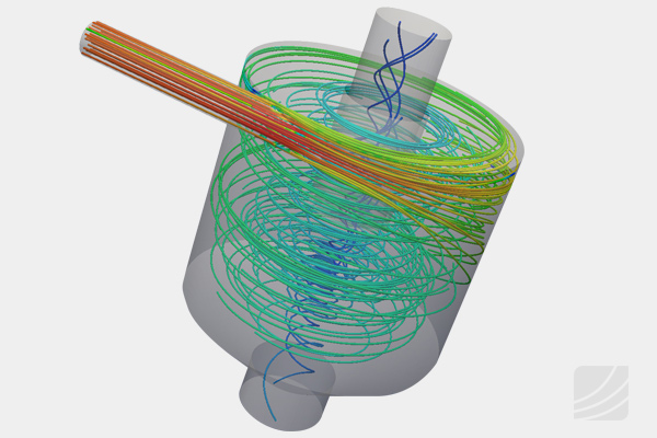 with the SimScale cloud-based CAE platform.